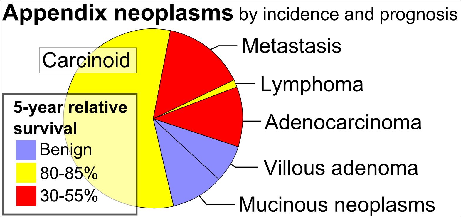 editHistopathological types of appendix neoplasms by incidence and prognosis. Data[edit] Histopathology typeCases5-year survival Carcinoid42[1]85.9%[2] Mucinous neoplasms7[1]Benign[1] Villous adenoma5[1]Benign[1] Adenocarcinoma8[1]45%[3] Lymphoma1[1]80%[4] Metastasis11[1]27-54%[5] References[edit] ↑ a b c d e f g h (2011). "A retrospective clinicopathological analysis of appendiceal tumors from 3,744 appendectomies: a single-institution study". International Journal of Colorectal Disease 26 (5): 617–621. ISSN 0179-1958. ↑ (2015). "Carcinoid tumor of the appendix: A case report". Oncology Letters 9 (5): 2401–2403. ISSN 1792-1074. ↑ (2010). "Primary appendiceal carcinoma – Epidemiology, surgery and survival: Results of a German multi-center study". European Journal of Surgical Oncology (EJSO) 36 (8): 763–771. ISSN 07487983. ↑ Lymphomas in the ileocecal region: Wang GB, Xu GL, Luo GY, Shan HB, Li Y, Gao XY et al. (2011). "Primary intestinal non-Hodgkin's lymphoma: a clinicopathologic analysis of 81 patients.". World J Gastroenterol 17 (41): 4625-31. PMID 22147970. PMC: 3226984. ↑ Colorectal peritoneal metastases: (2019). "Morbidity and Mortality Rates Following Cytoreductive Surgery Combined With Hyperthermic Intraperitoneal Chemotherapy Compared With Other High-Risk Surgical Oncology Procedures". JAMA Network Open 2 (1): e186847. ISSN 2574-3805.